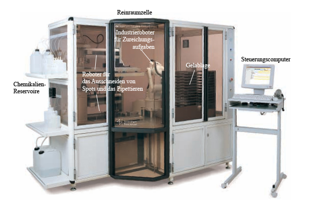 Spot cutting robot of Amersham